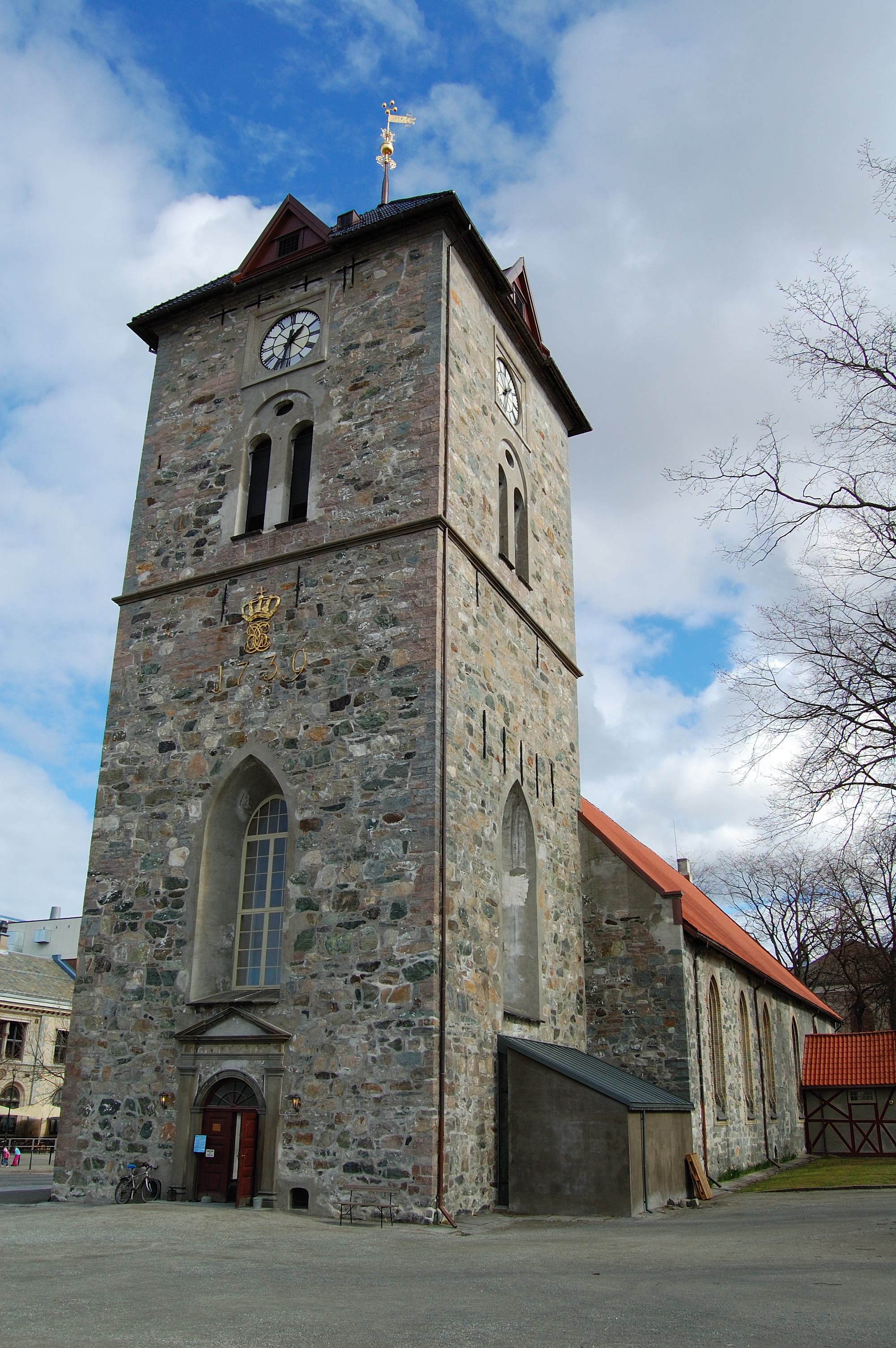 Vår Frue church in Trondheim, Norway.